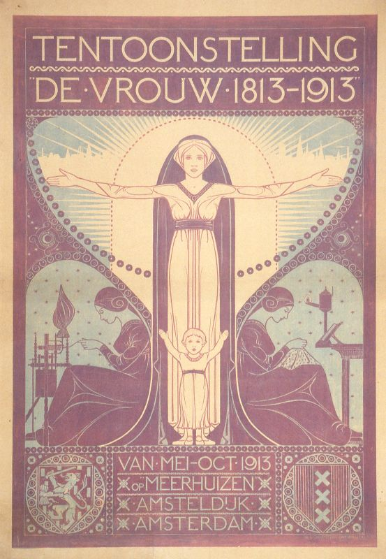 Poster and book cover of exhibition catalog "The Woman 1813-1913"